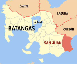 Map of Batangas showing the location of San Juan